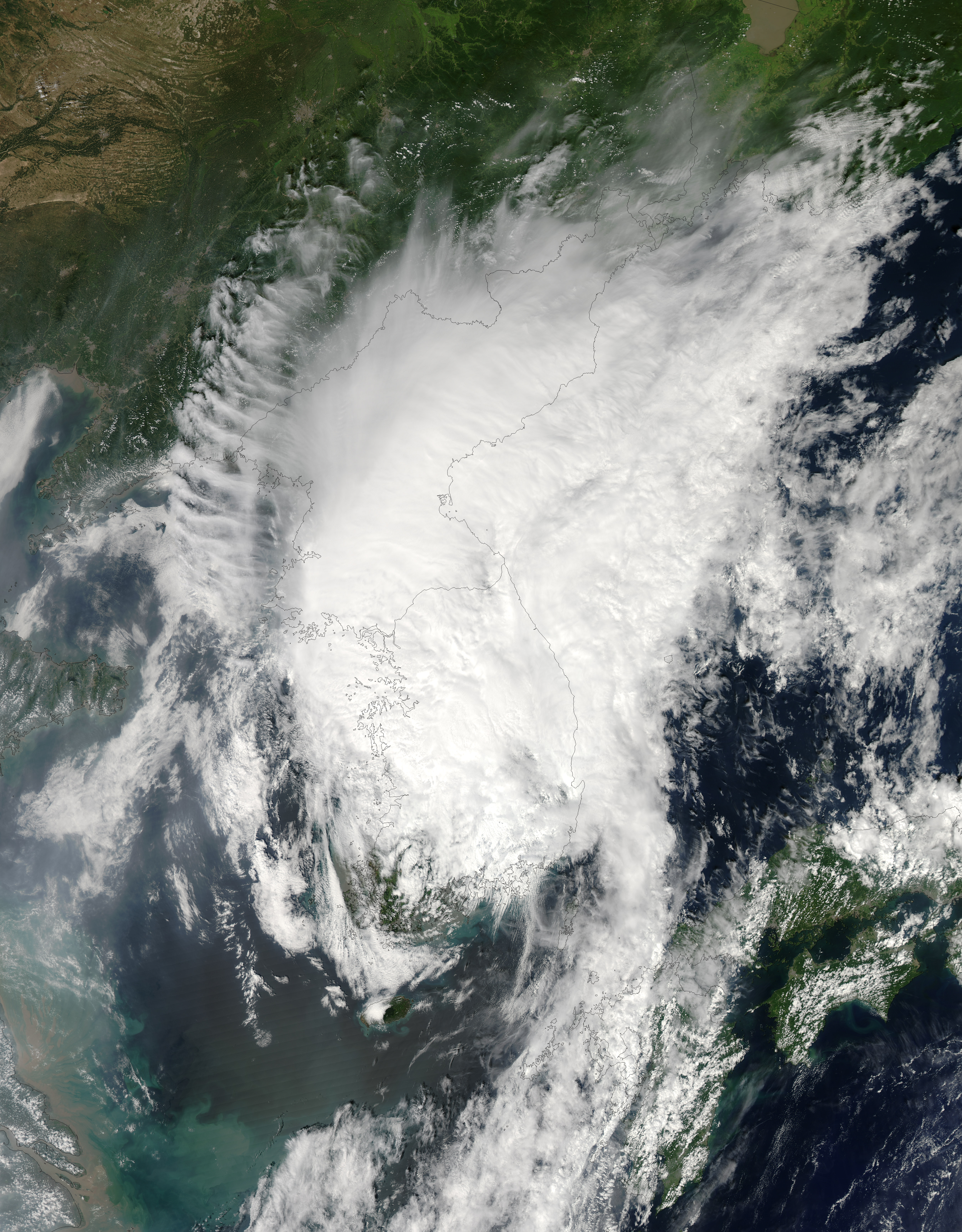 Tropical Storm Tembin, just after landfall over South Korea as it becomes Extratropical